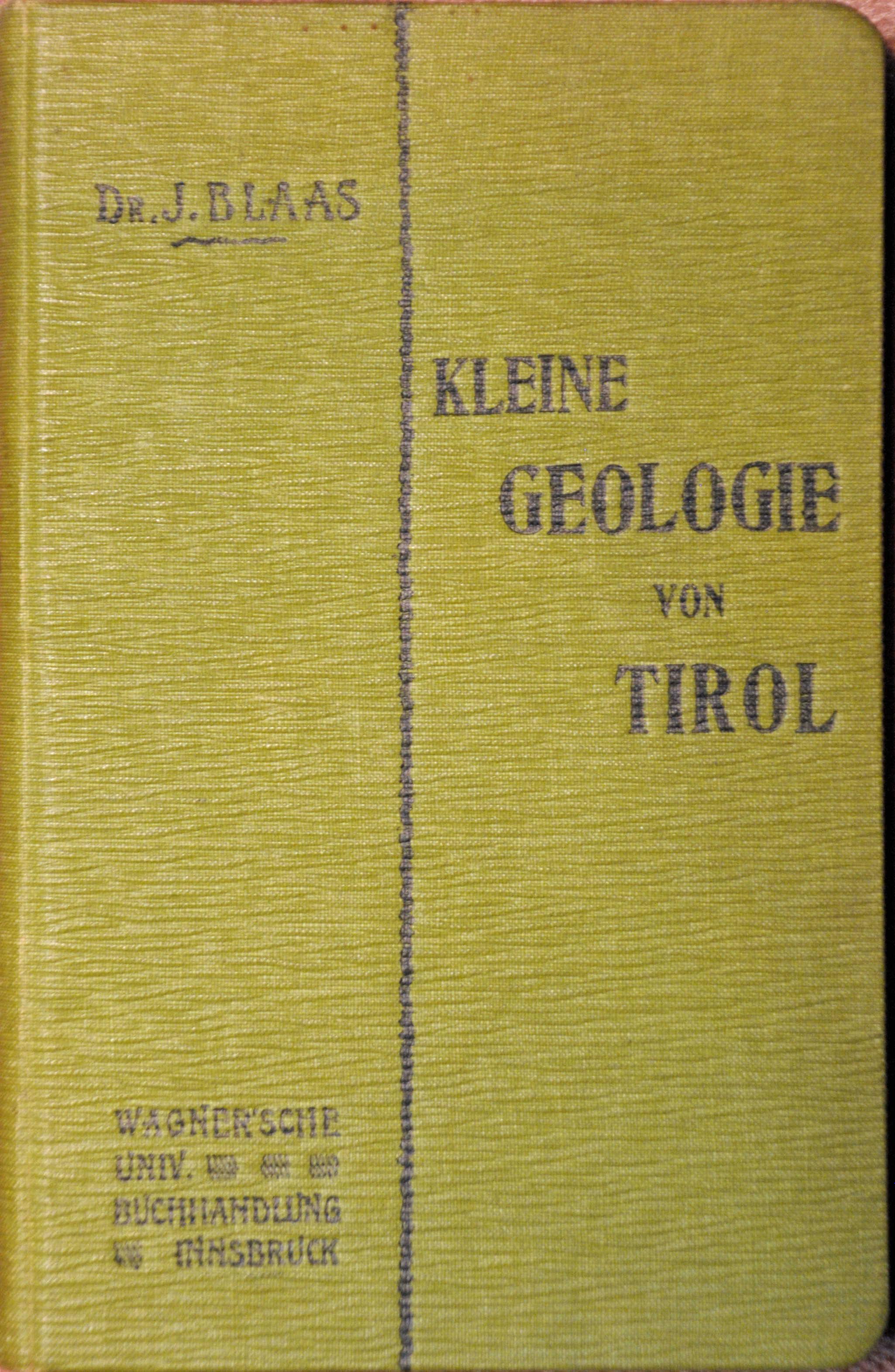 Little textbook of geology in Tyrol by Josef Blaas